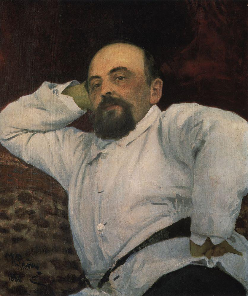 Portrait of railroad tycoon and patron of the arts Savva Ivanovich Mamontov